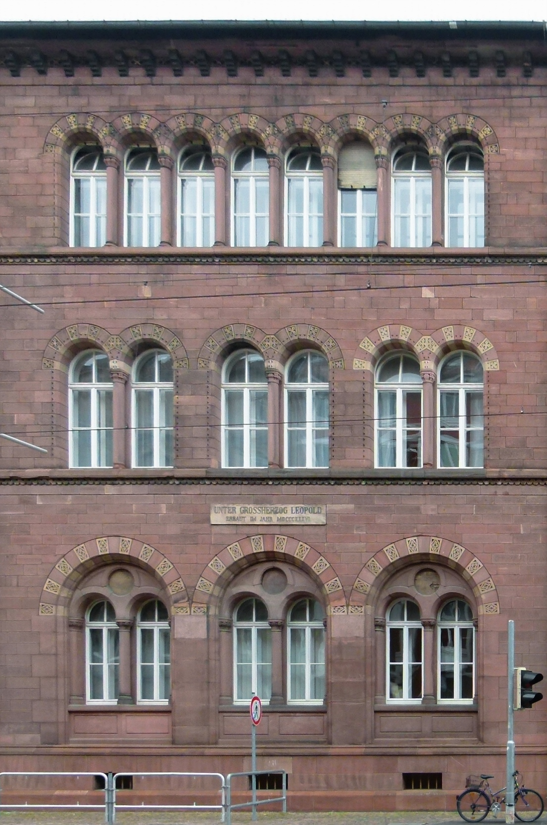 Polytechnical School, main building, Karlsruhe, 1833–1835, by Heinrich Hübsch